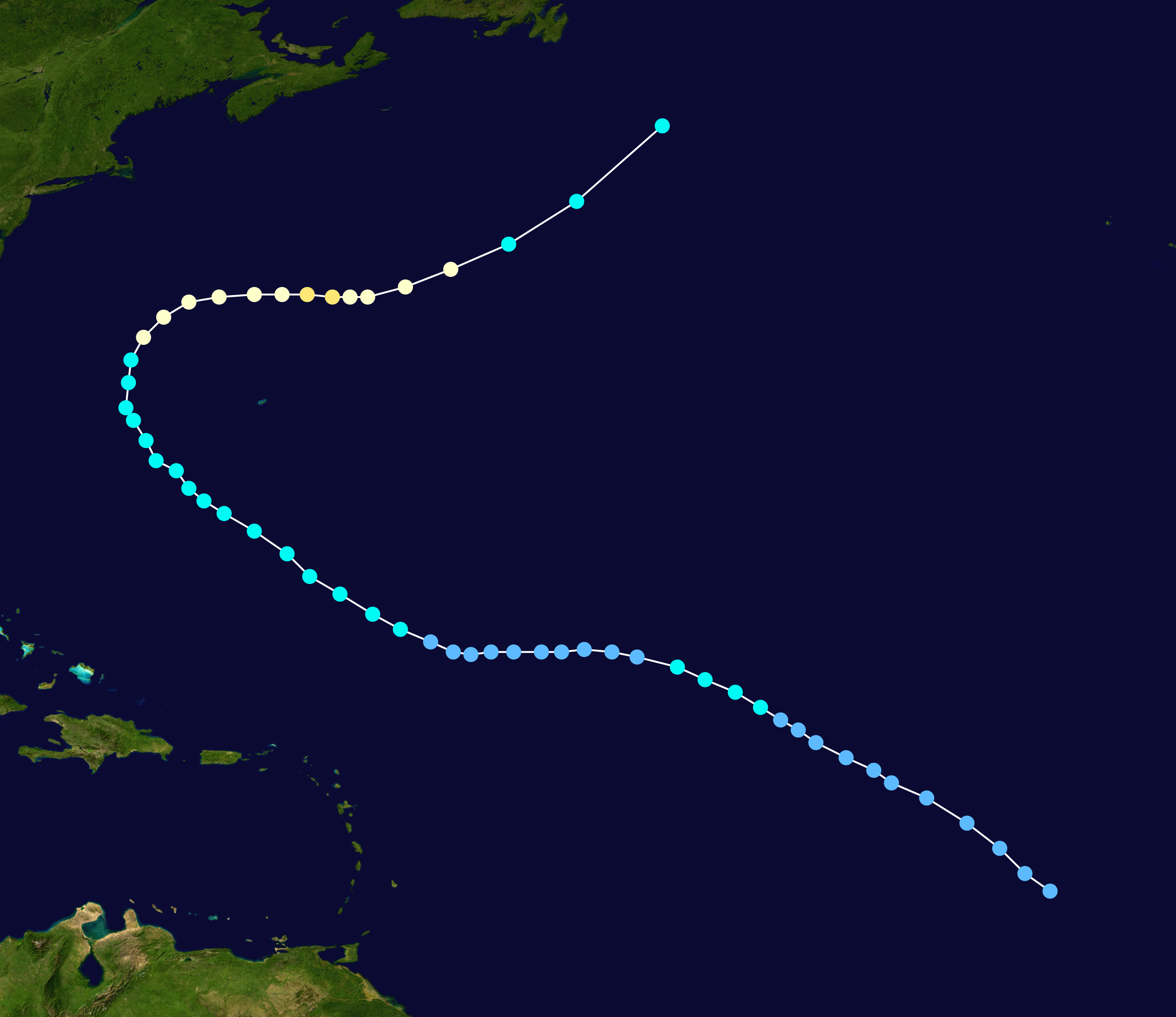 Track map of Hurricane Irene of the 2005 Atlantic hurricane season. The points show the location of the storm at 6-hour intervals. The colour represents the storm's maximum sustained wind speeds as classified in the Saffir–Simpson scale (see below), and the shape of the data points represent the nature of the storm, according to the legend below. Saffir–Simpson scale Tropical depression≤38 mph≤62 km/h Category 3111–129 mph178–208 km/h Tropical storm39–73 mph63–118 km/h Category 4130–156 mph209–251 km/h Category 174–95 mph119–153 km/h Category 5≥157 mph≥252 km/h Category 296–110 mph154–177 km/h Unknown Storm type Tropical cyclone Subtropical cyclone Extratropical cyclone / Remnant low / Tropical disturbance / Monsoon depression